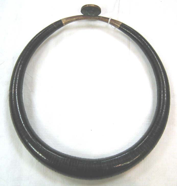 Indonesian (Nias peoples); Neck Torc